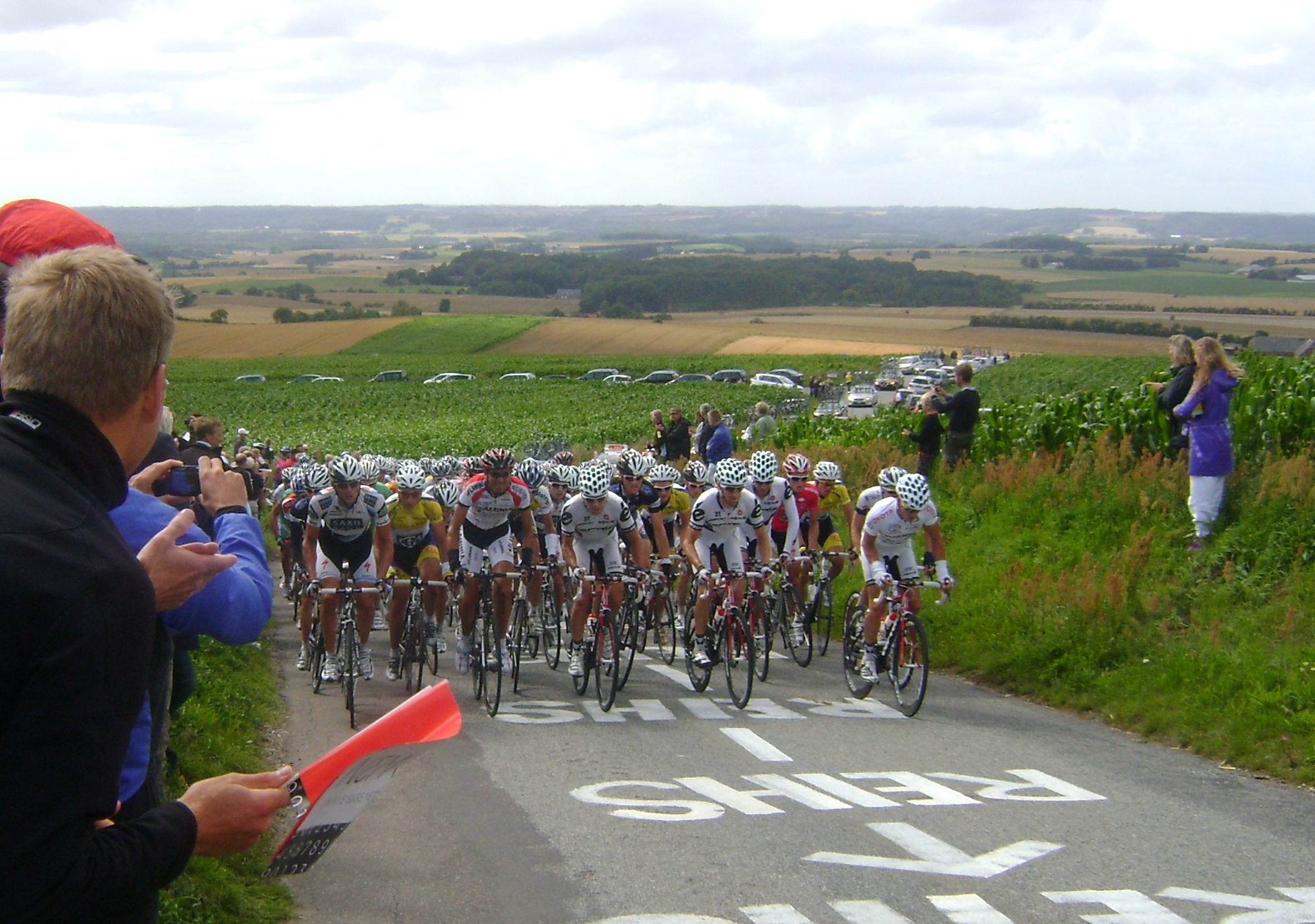 The Post Danmark Rundt 2009 peloton on Yding Skovhøj during stage 3.